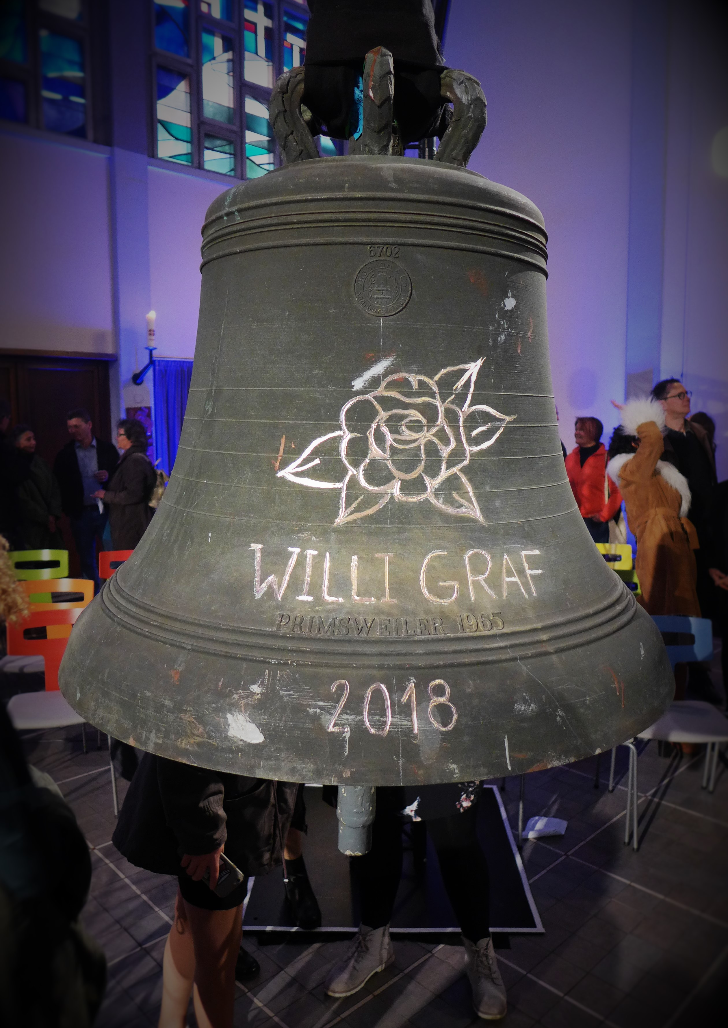 Willi-Graf-Glocke, St. Elisabeth-Kirche, Saarbrücken-St. Johann, Einweihung am 1. November 2018